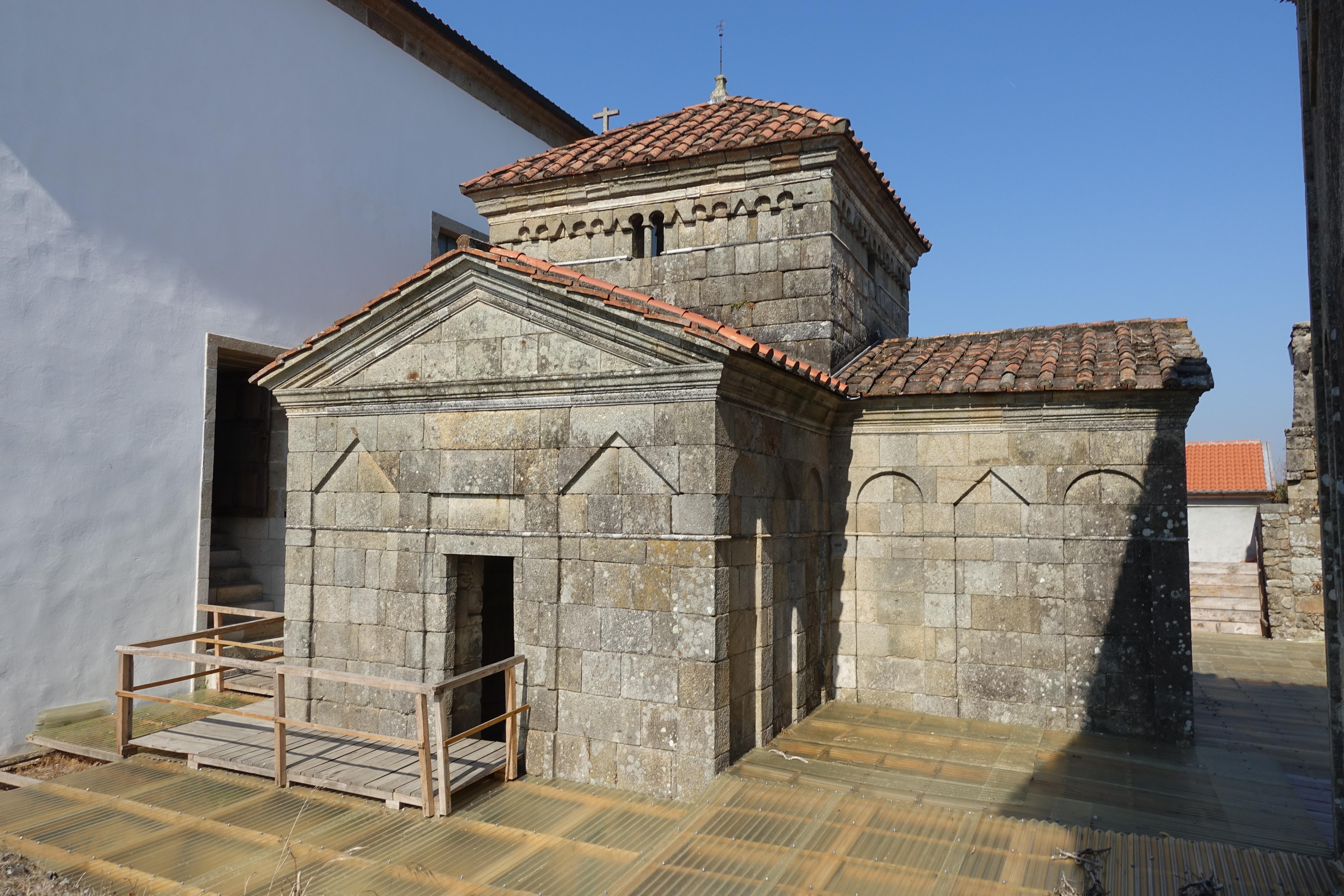 Chapel of São Frutuoso (Braga) Portugal